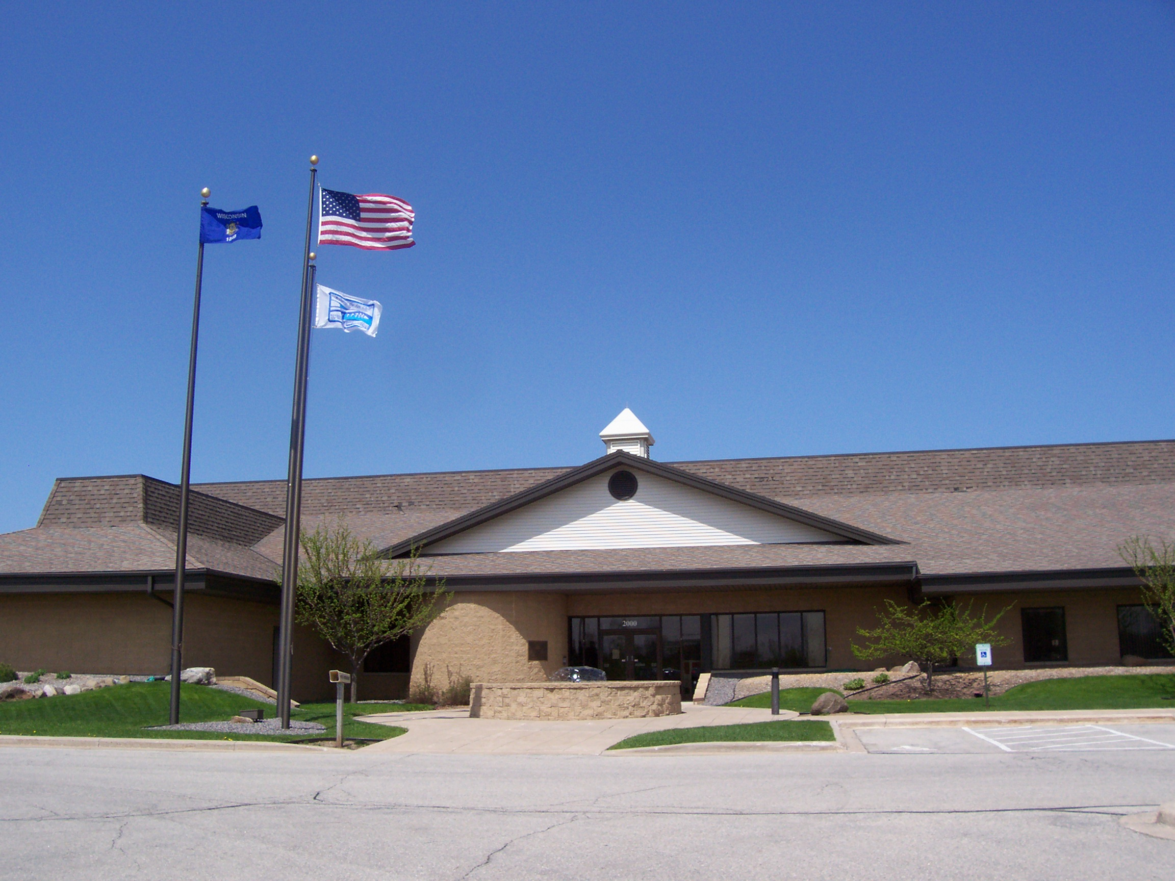 Looking north at the town hall for Menasha (town), Wisconsin, US.